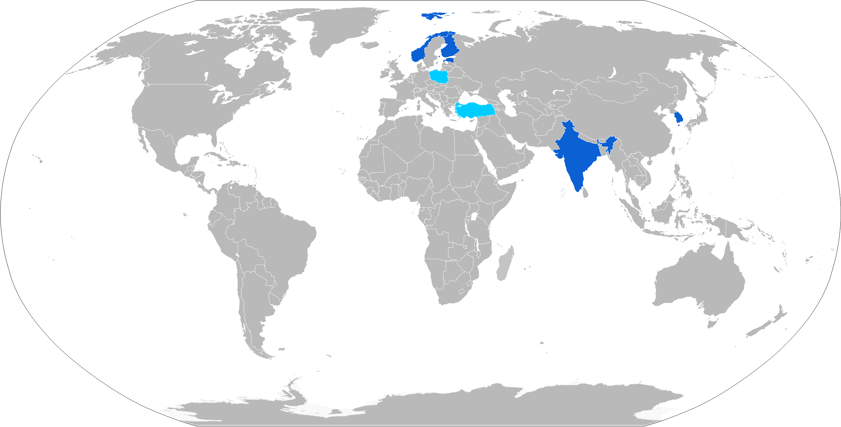 Map with K9 operators in blue and parts or subsystems operators in cyan